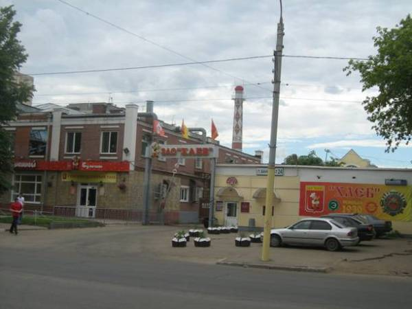 Tver, bread factory "ZAO Khleb".